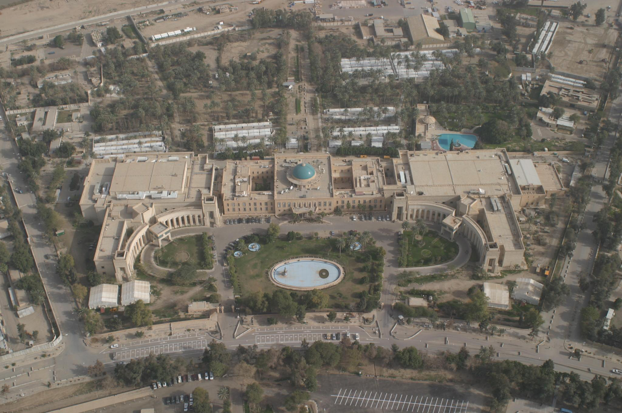 The Republican Palace (Arabic: al-Qaṣr al-Ǧumhūriy) in Baghdad, Iraq is the largest of the palaces commissioned by Saddam Hussein and was his preferred place to meet visiting heads of state. The United States spared the palace during its shock and awe raid during the 2003 invasion of Iraq, in the belief that it might hold valuable documents. The Green Zone developed around it. The palace itself served as the headquarters of the American occupation of Iraq and continues to serve as a primary base of operations for the American diplomatic mission in Iraq pending the construction of the new US Embassy in Baghdad.